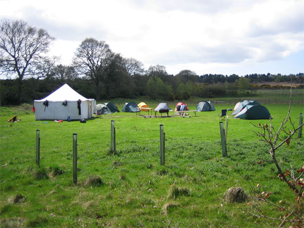 Buddens Camping and Activities Centre. Nestling in the rolling Dorset countryside Buddens Farm was purchased in 1994 to provide Dorset Scouts, plus other Scout, Guide and youth groups, with a camping and training facility having access to on and off-site activities. The site is being developed from former farmland and quarries to become a first-class camping and activity centre.